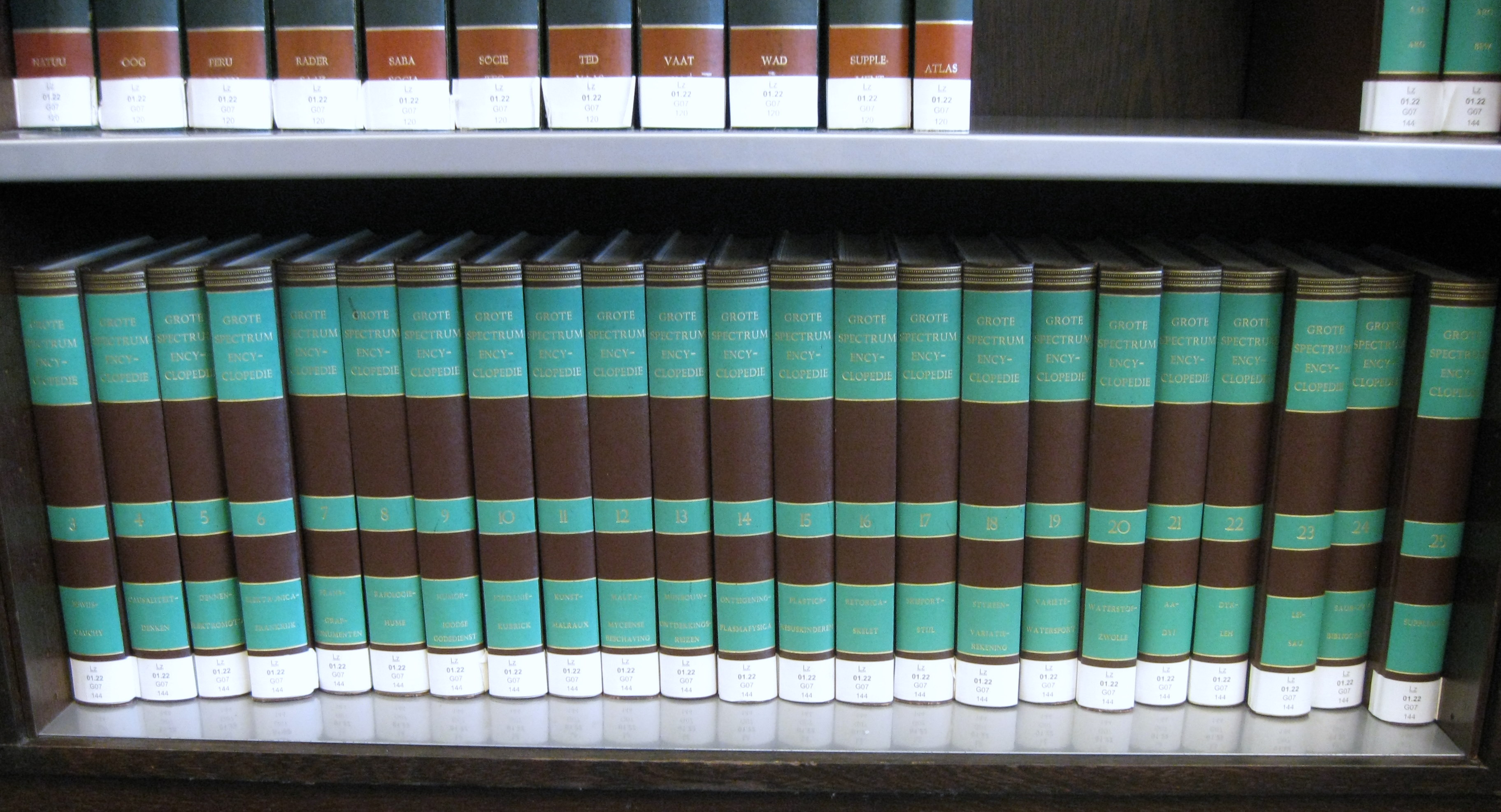 University library of Nijmegen: grote spectrum encyclopedie (1974-1980)